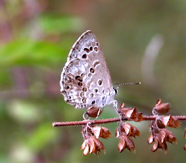 Lime Blue (Chilades laius) Photographed in Bangalore, India.